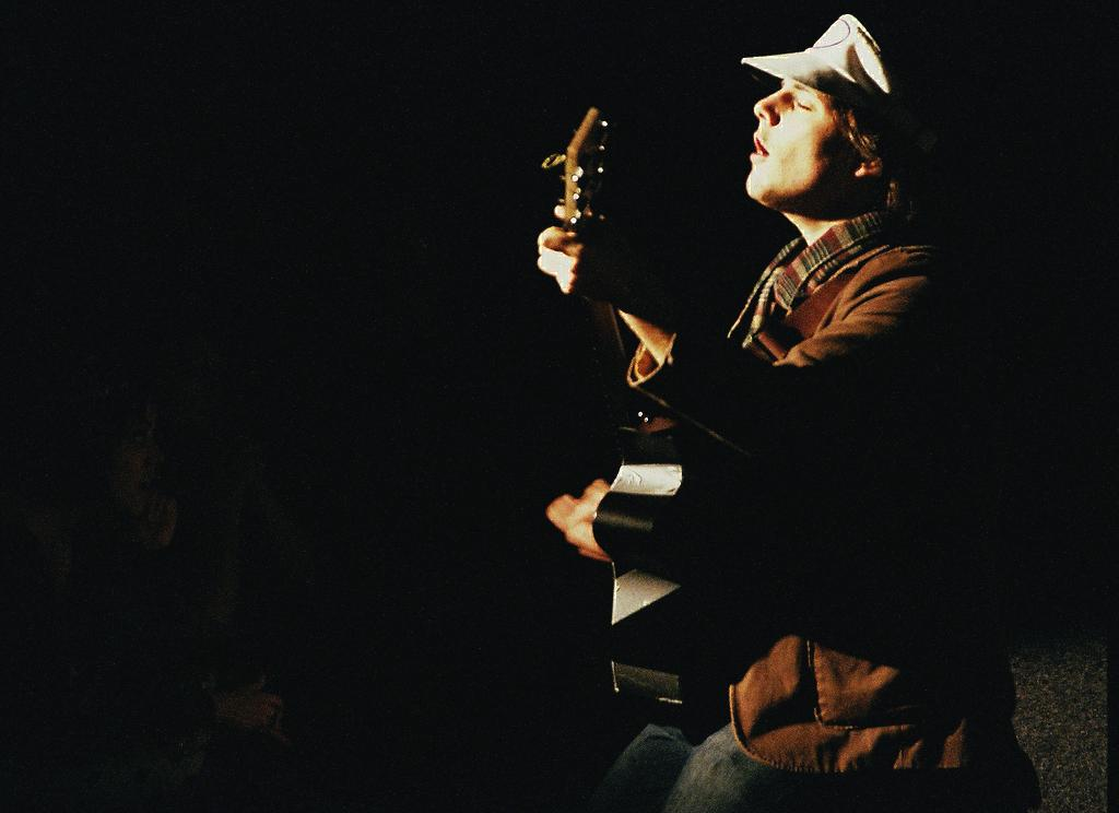 Peter and the Wolf, February 14, 2008